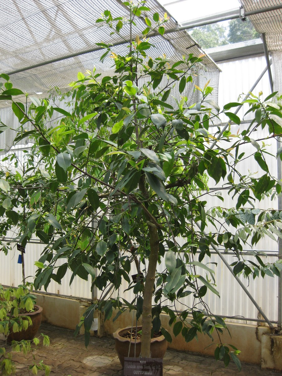 Garcinia cowa Roxb. ex DC. Photographed at the Queen Sirikit Botanic Garden (Chiang Mai Province, Thailand) in March